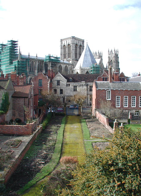 York Minster Looking southwest from the city walls near the site of the gateway to the Roman fortress. A brief history of the minster can be found on the cathedral's official website.